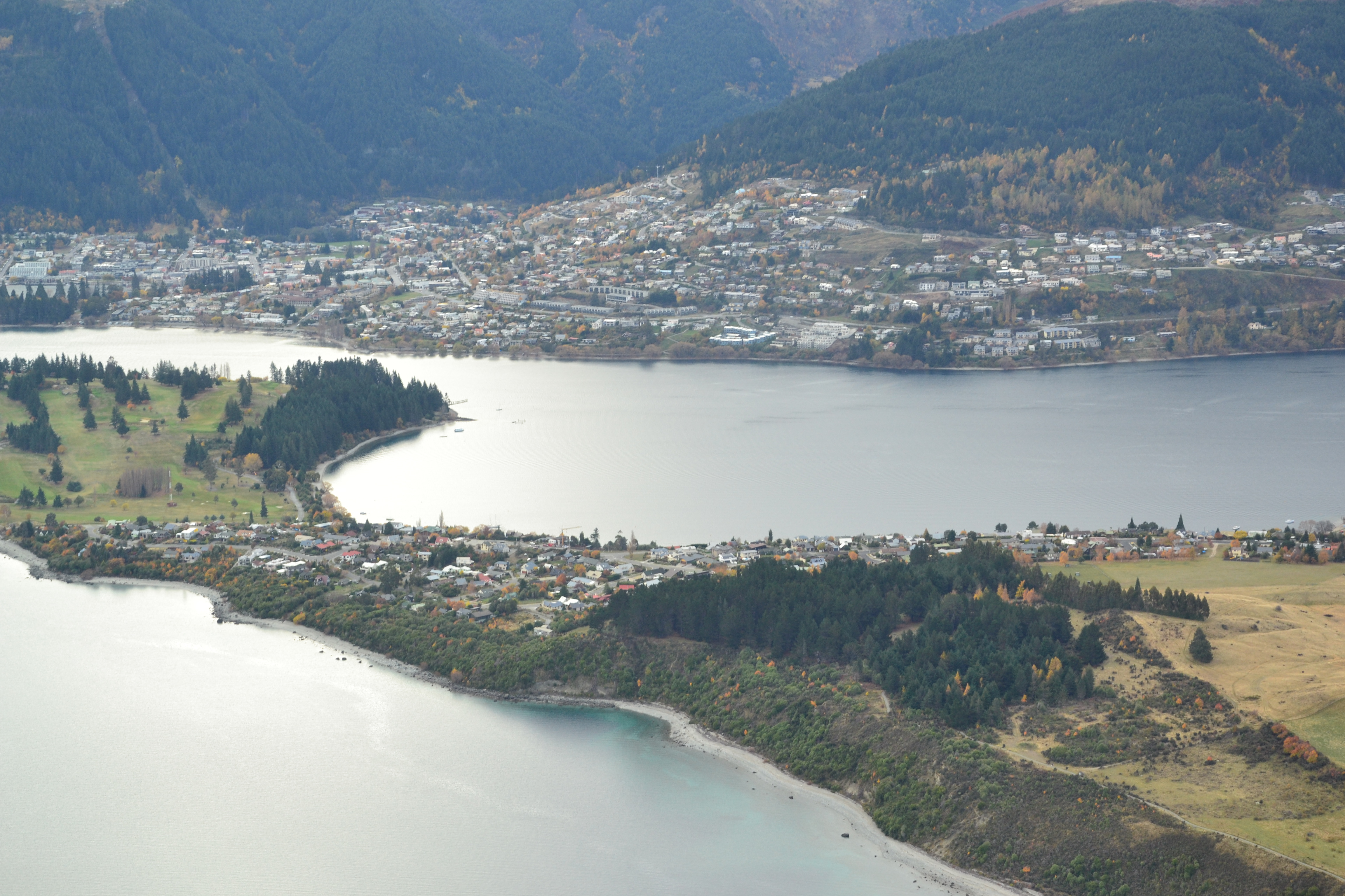 Shot of Queenstown taken from a Cessna Caravan. Foreground shows the suburb of Kelvin Heights and the Kelvin Peninsula.